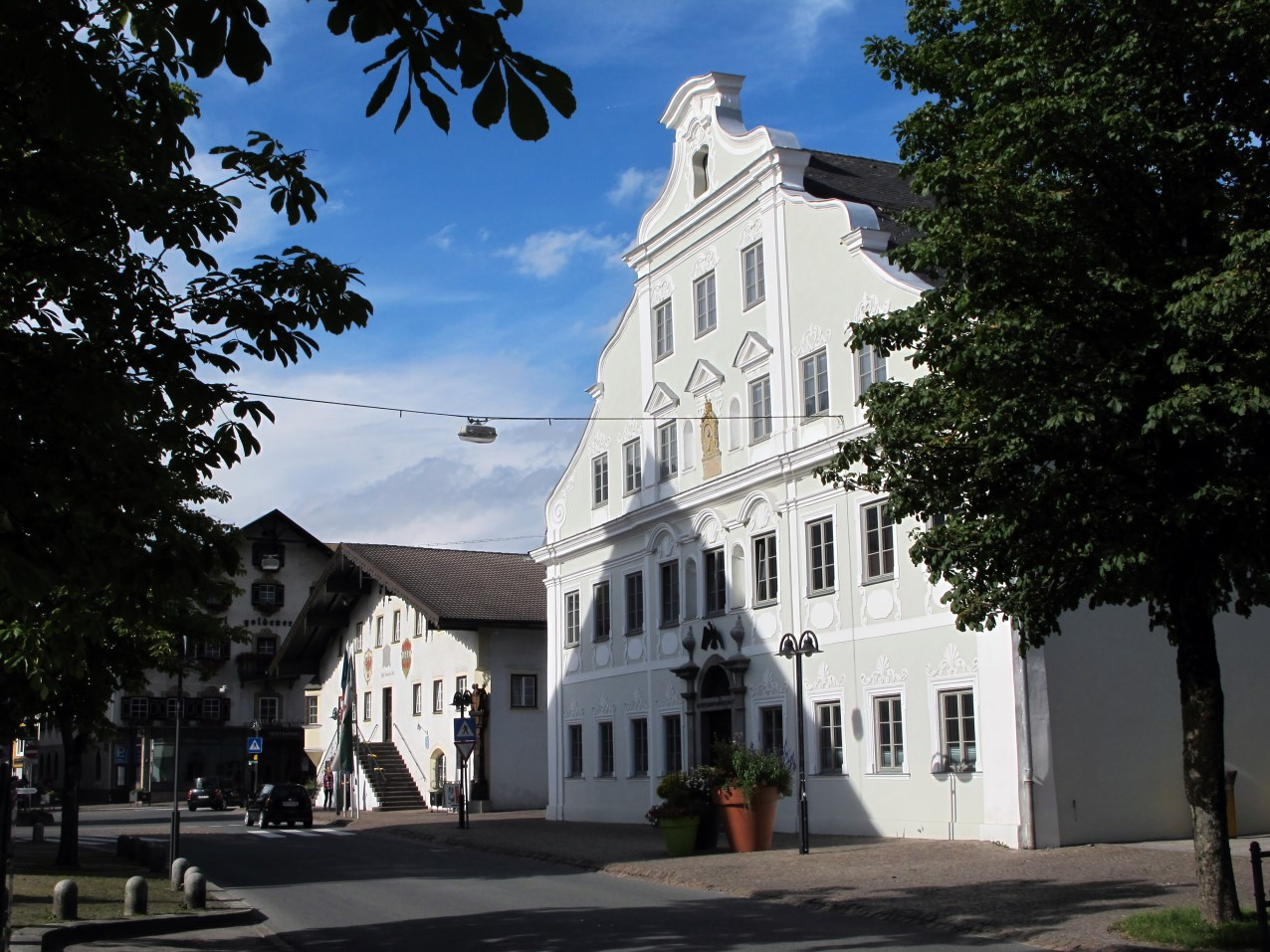 City of Reutte in Tyrol, Building for Office of "Bezirkshauptmannschaft"